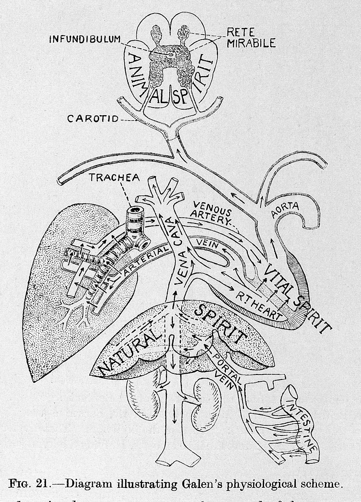 Diagram illustrating Galen's physiological scheme General Collections Keywords: Physiology; Anatomy; Galen